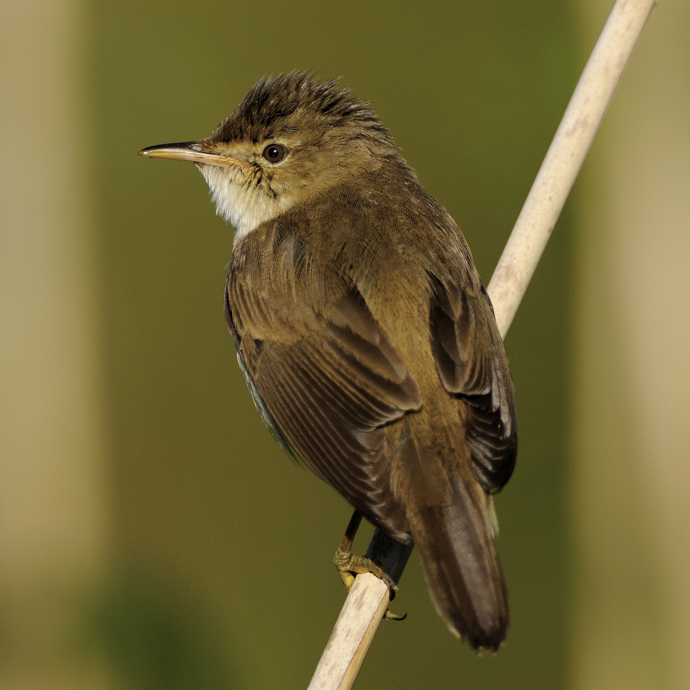 Eurasian Reed Warbler in the Pleidelsheimer Wiesental nature preserve